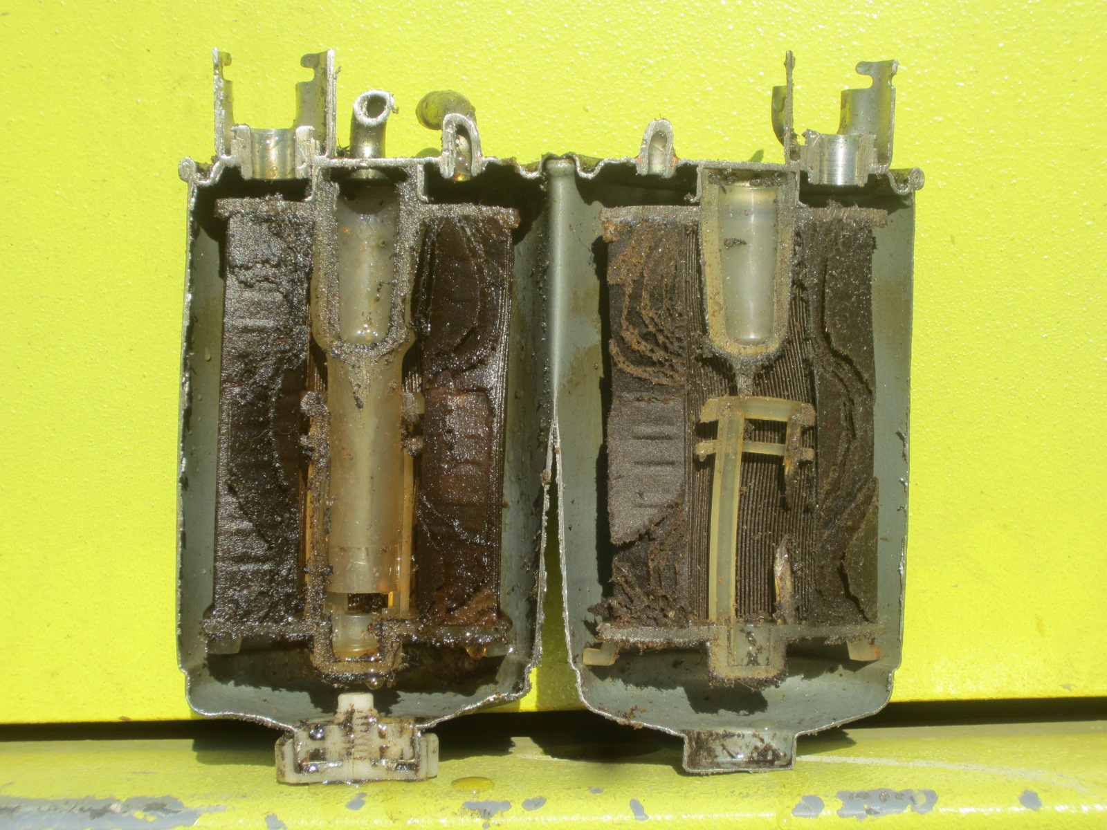 used Diesel-Fuelfilter from 1.9 Volkswagen engine (the filter was removed due to glogging)